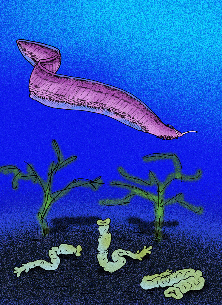 Reconstruction of the primitive Cambrian chordate, Pikaia gracilens, of Burgess Shales.